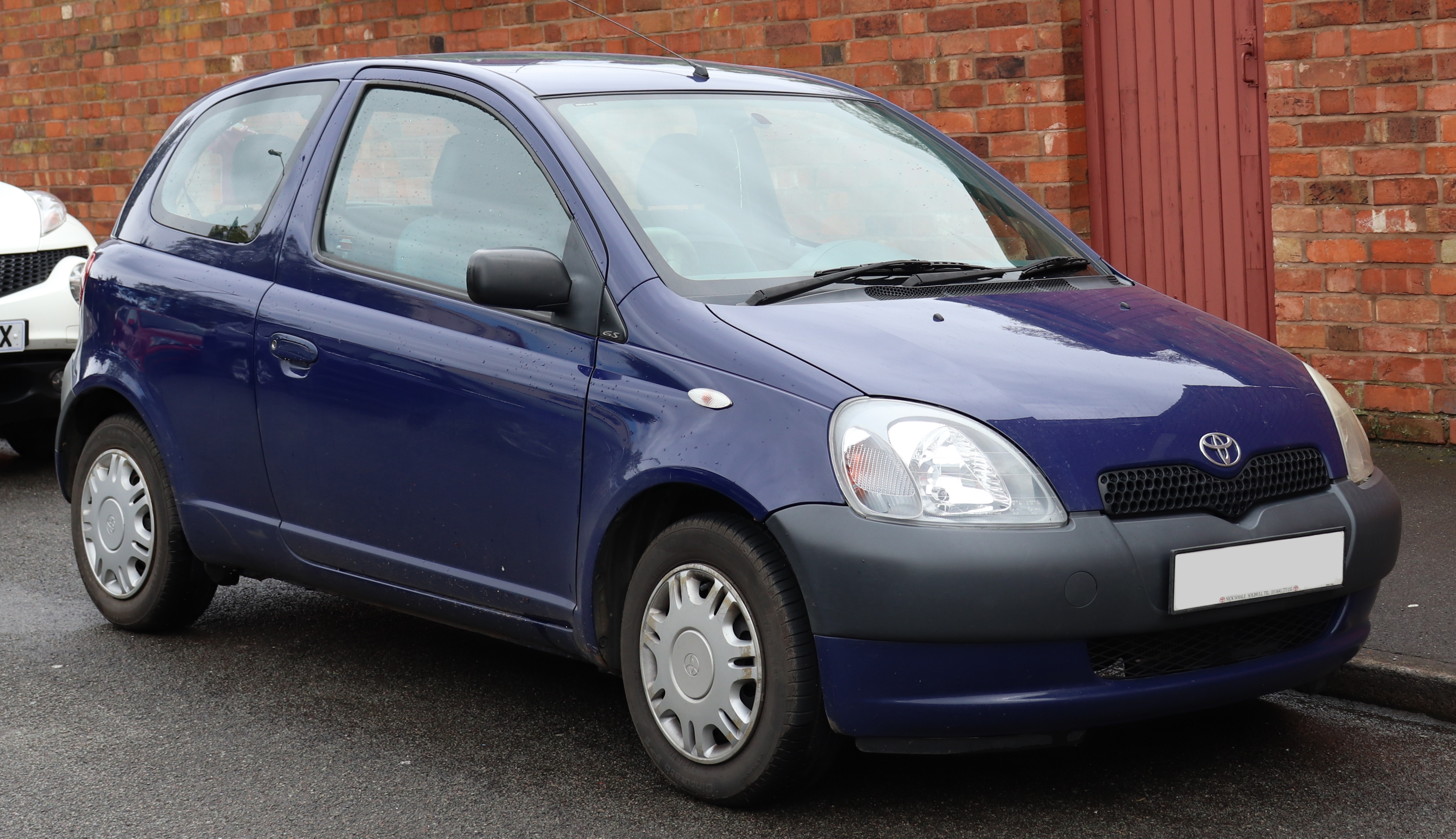 2000 Toyota Yaris GS 1.0 Front Taken in Leamington Spa